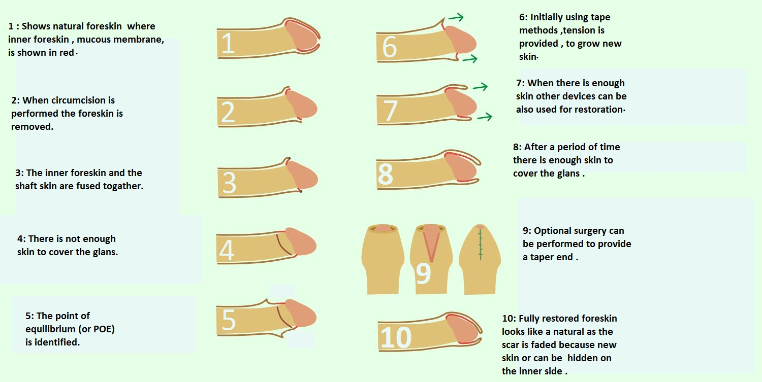 these are the series of steps taken for foreskin restoration.